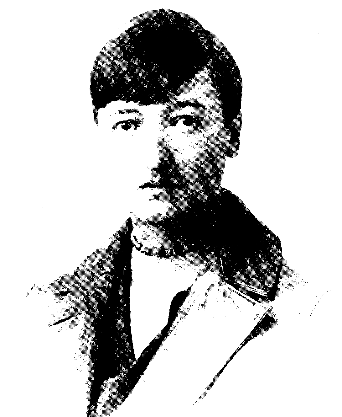 Portrait of True Davidson at about age 30.